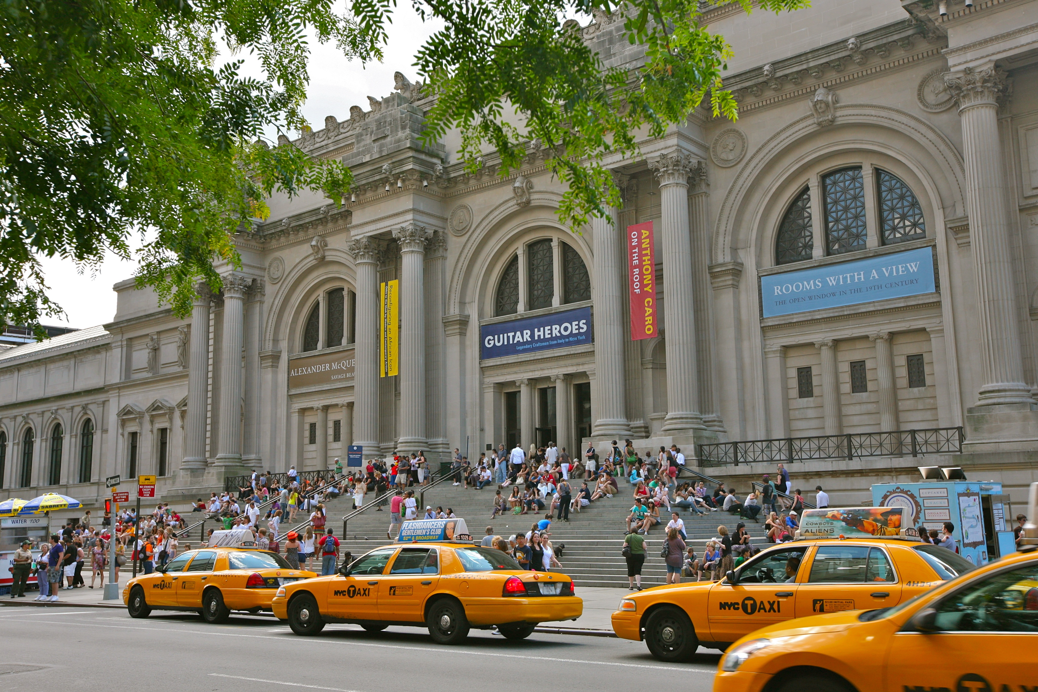 Outside the Metropolitan Museum Of Art